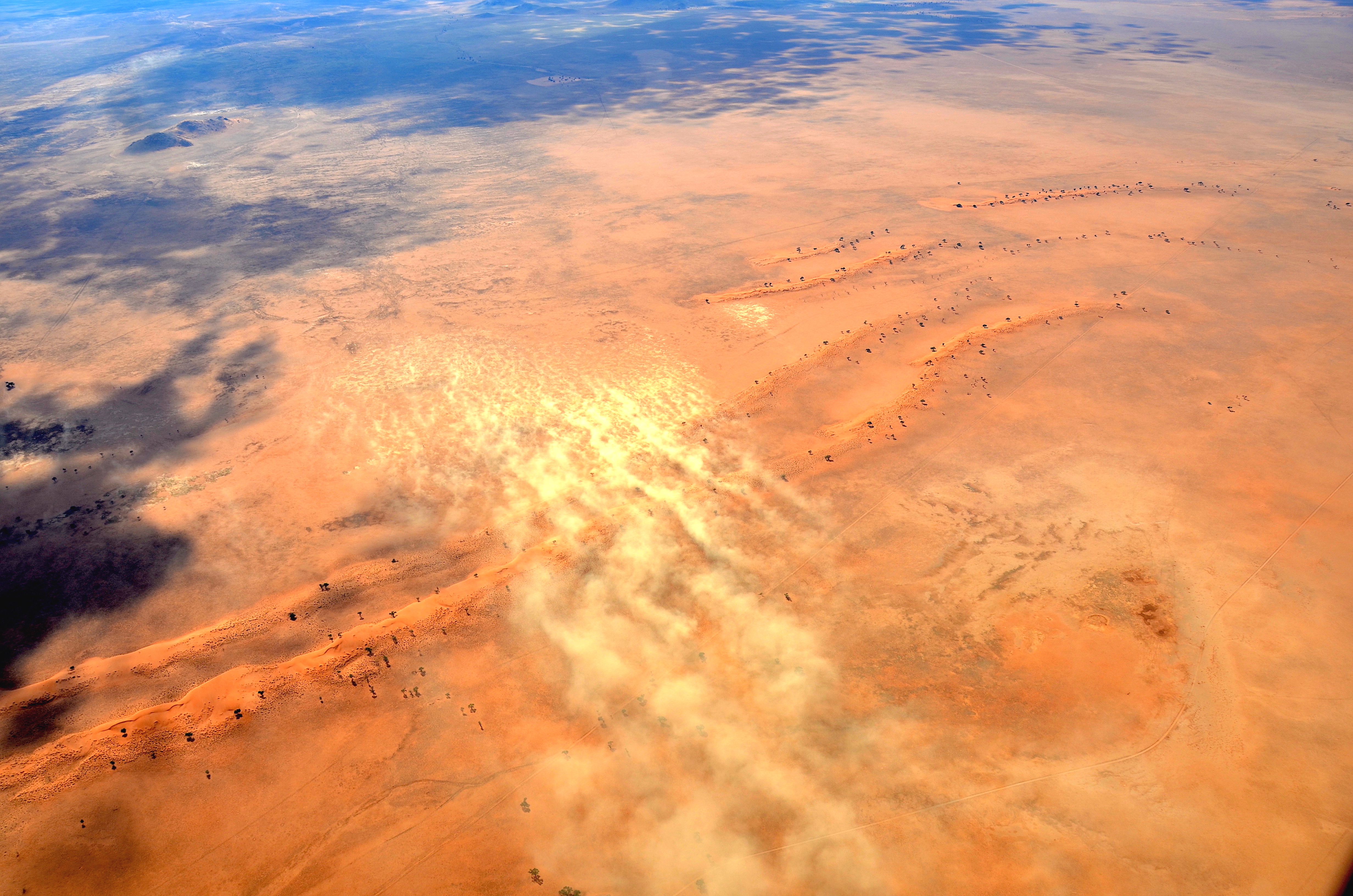 Sandstrom seen from above (Namib Desert 2017)